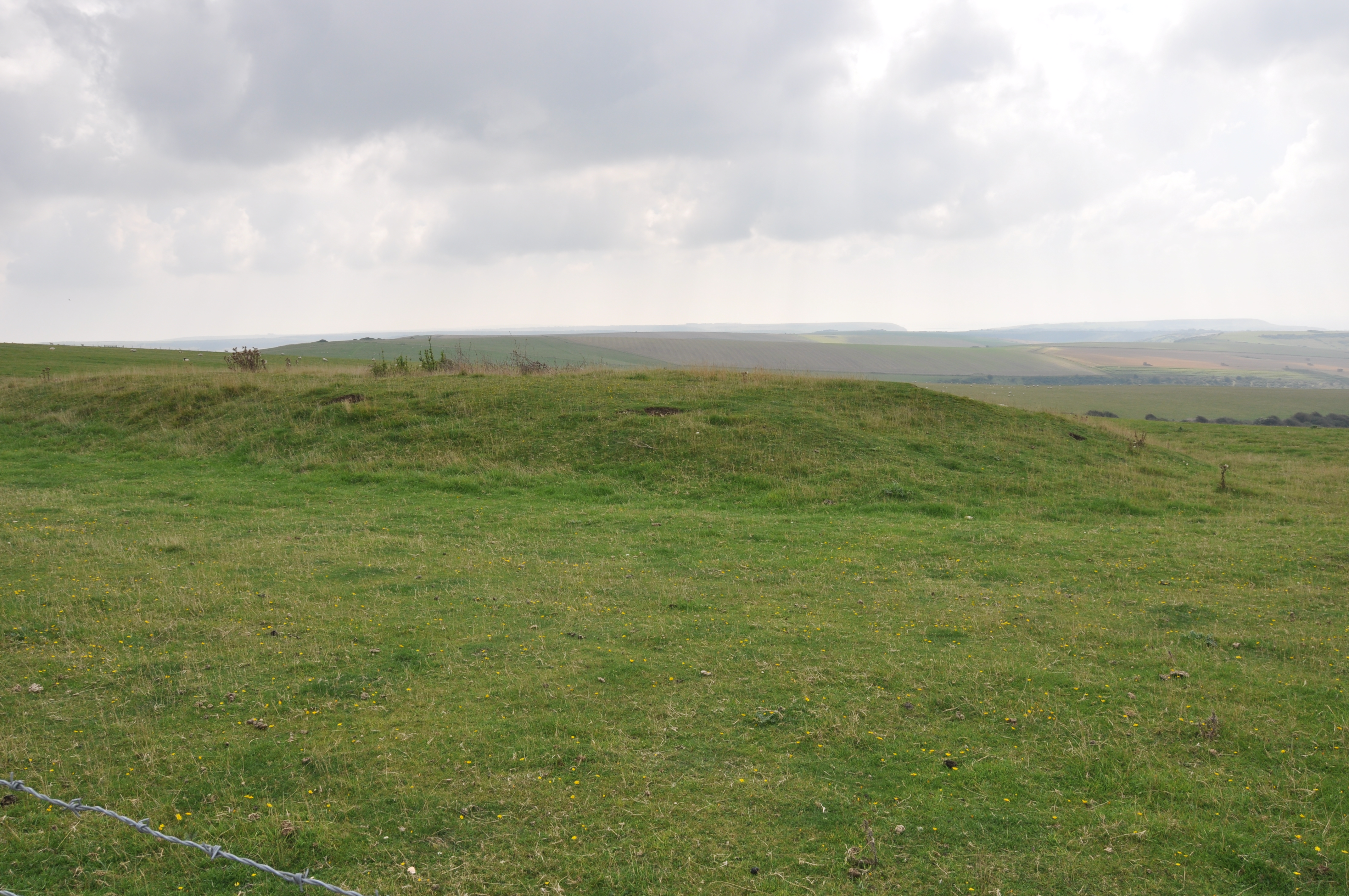 Oval barrow and adjacent bowl barrow, 220m west of Firle Beacon